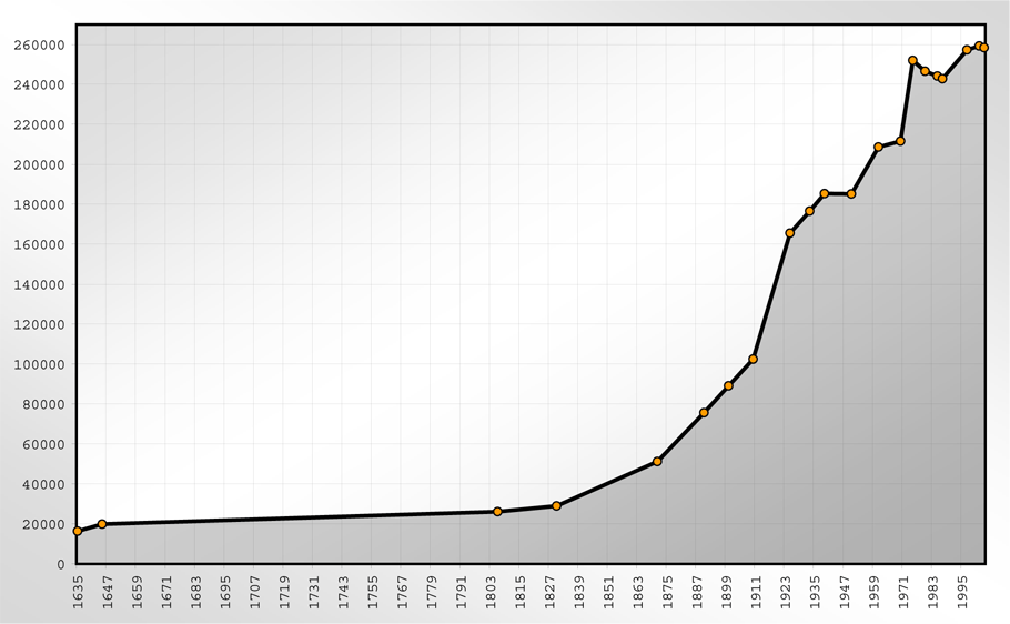 This image shows the population statistics of Augsburg (Germany).